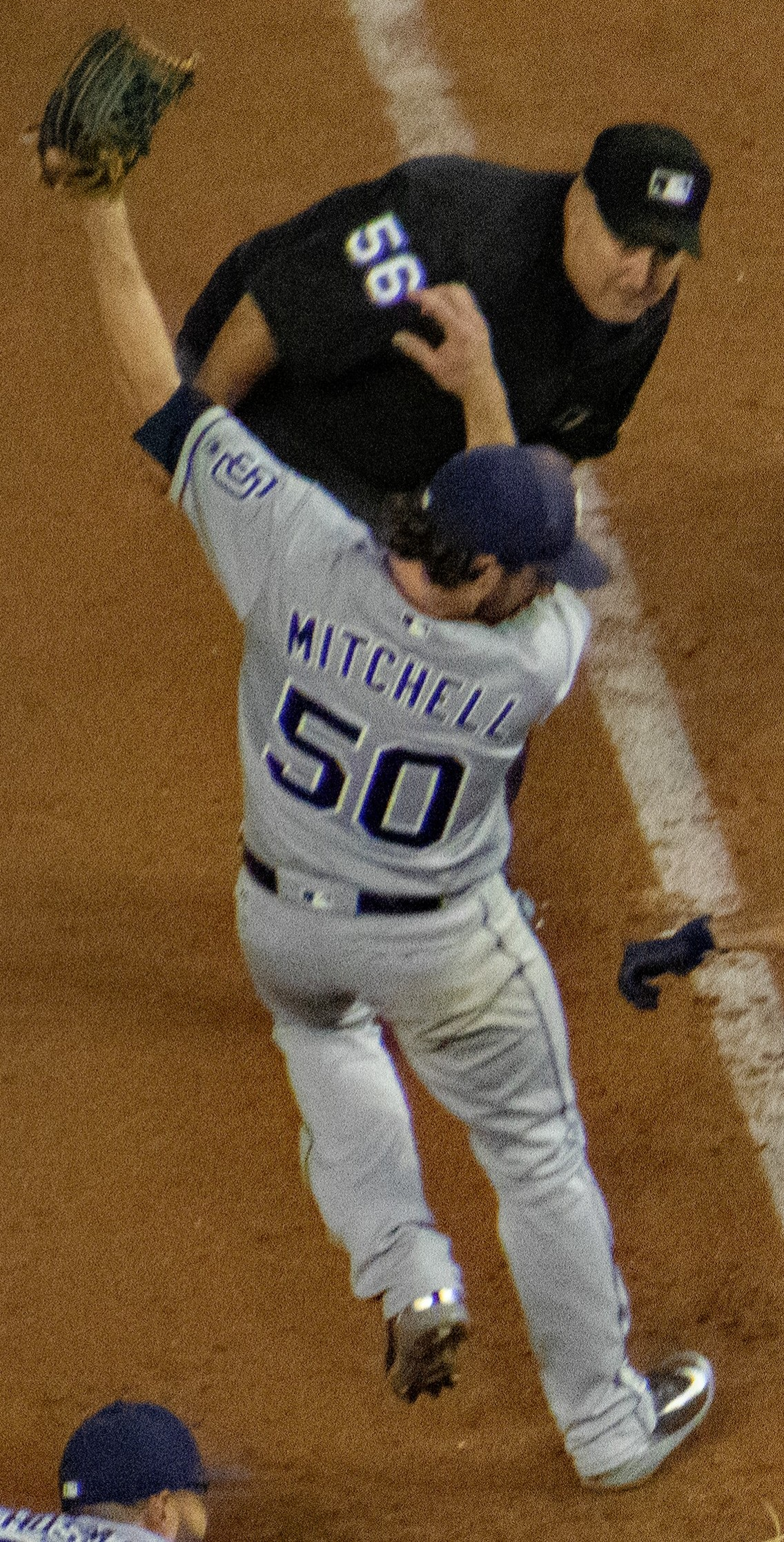 Bryan Mitchell